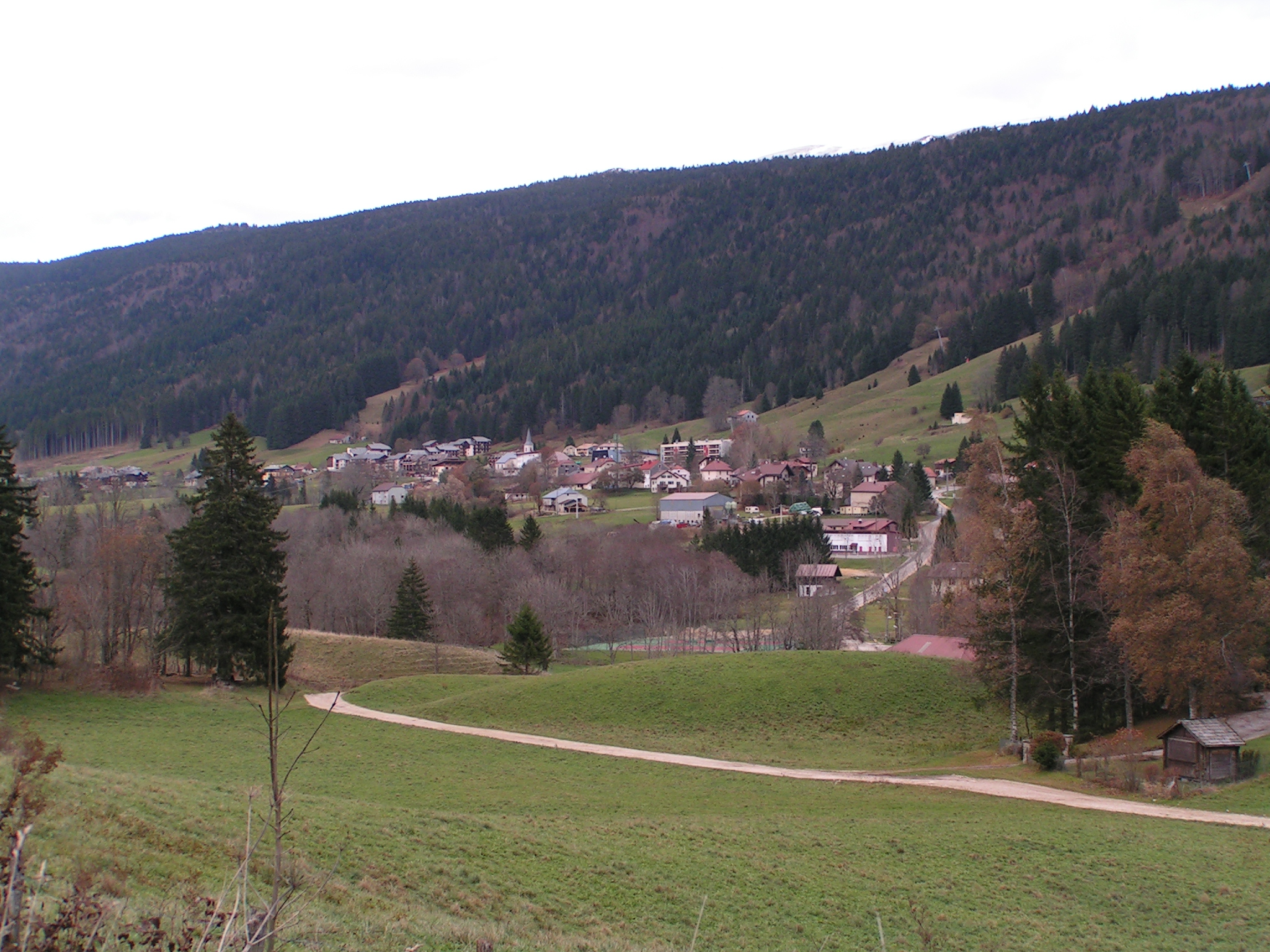 Lélex village view from the south-west (Ain, France).